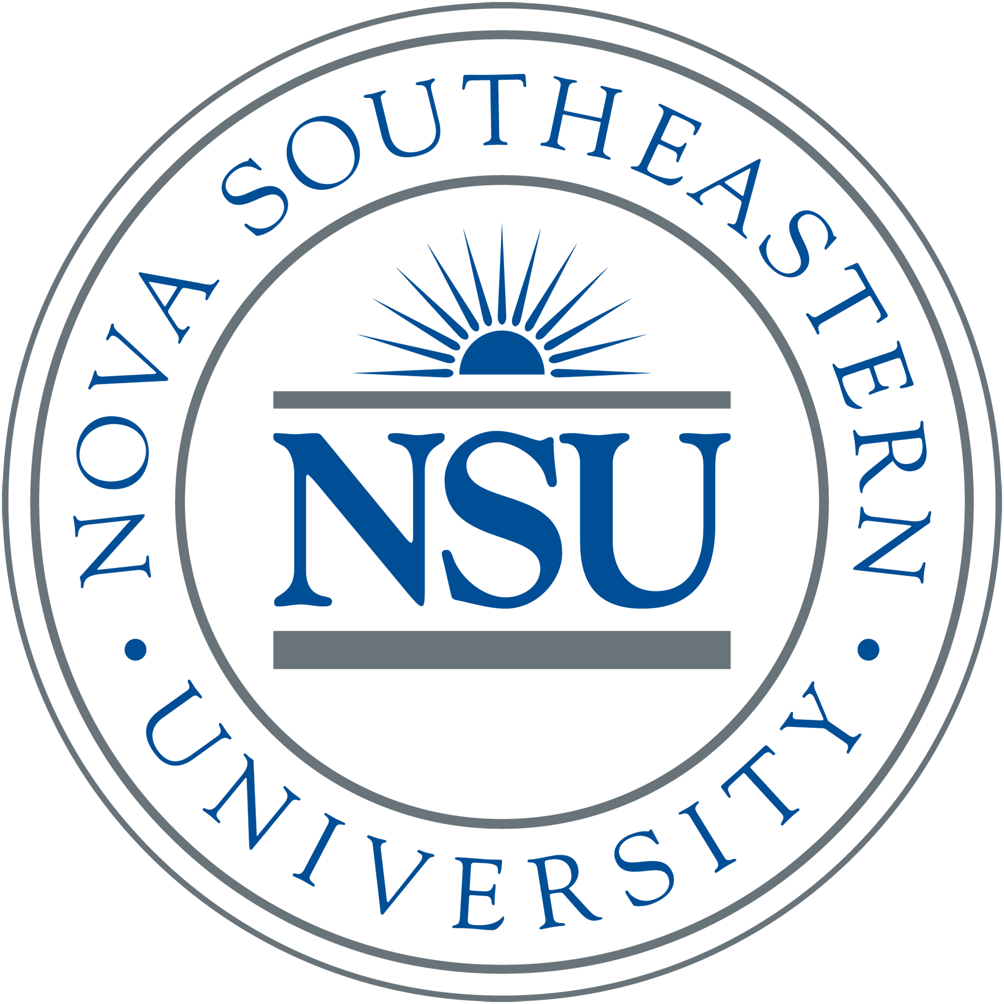 Created a vector of the NSU logo for a personal vector project